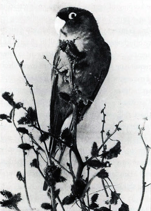 Live captive Carolina parakeet on a cocklebur.